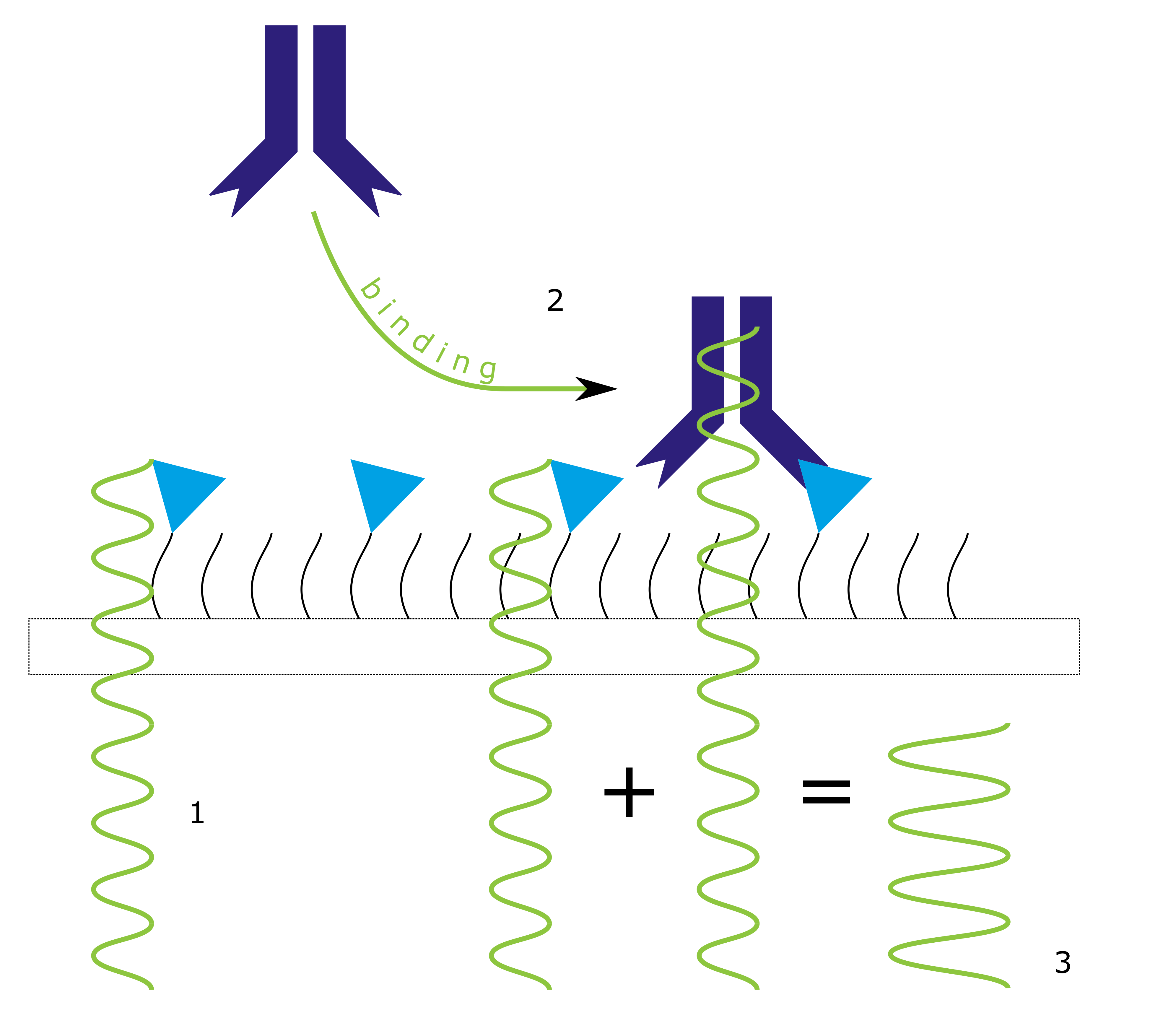 Change of reflectance upon analyte binding.